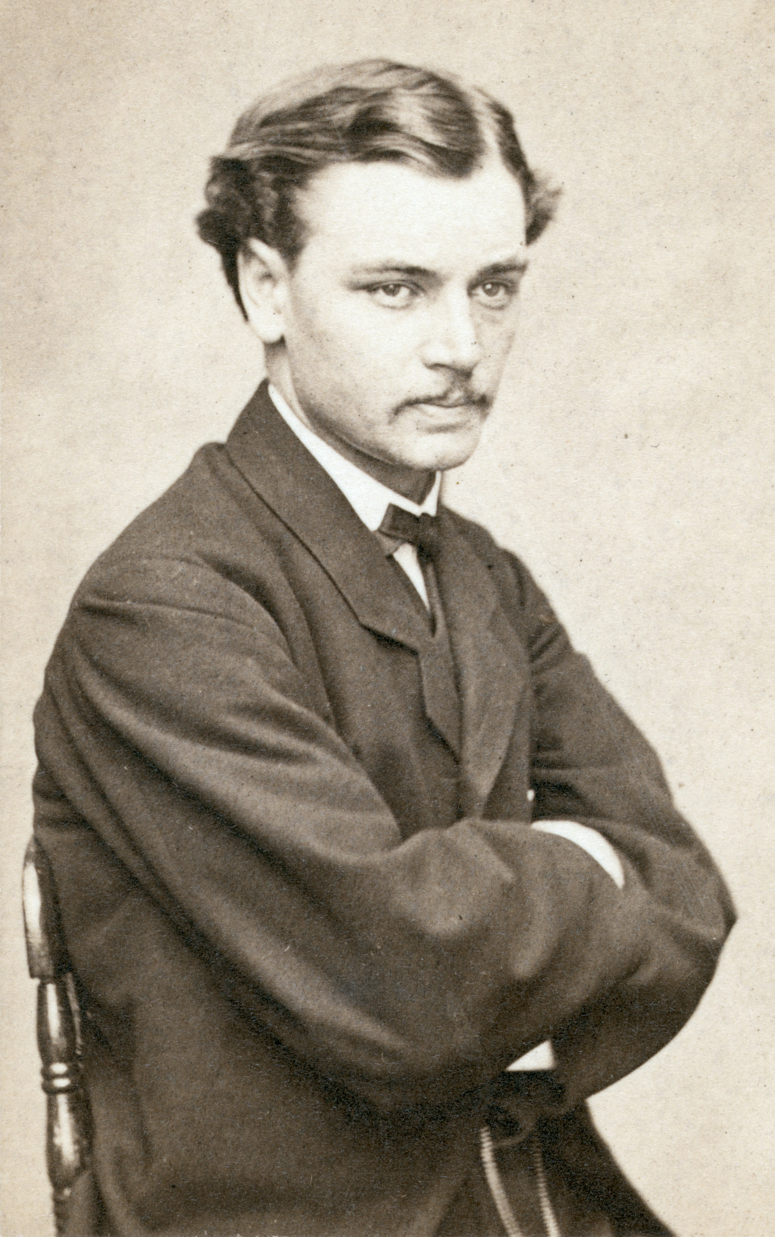 Robert Lincoln, son of President Abraham Lincoln, half-length portrait, seated. MEDIUM: 1 photographic print : albumen, on carte de visite mount ; 10 × 6 cm. NOTES: Title devised by Library staff. Notation on verso: "Robt. T. Lincoln."